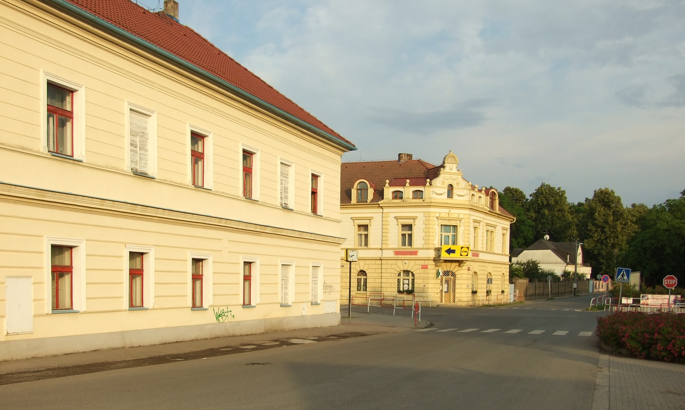 Rudná, Prague-West District, Central Bohemian Region, Czech Republic. Masarykova 16/82, 125/59.